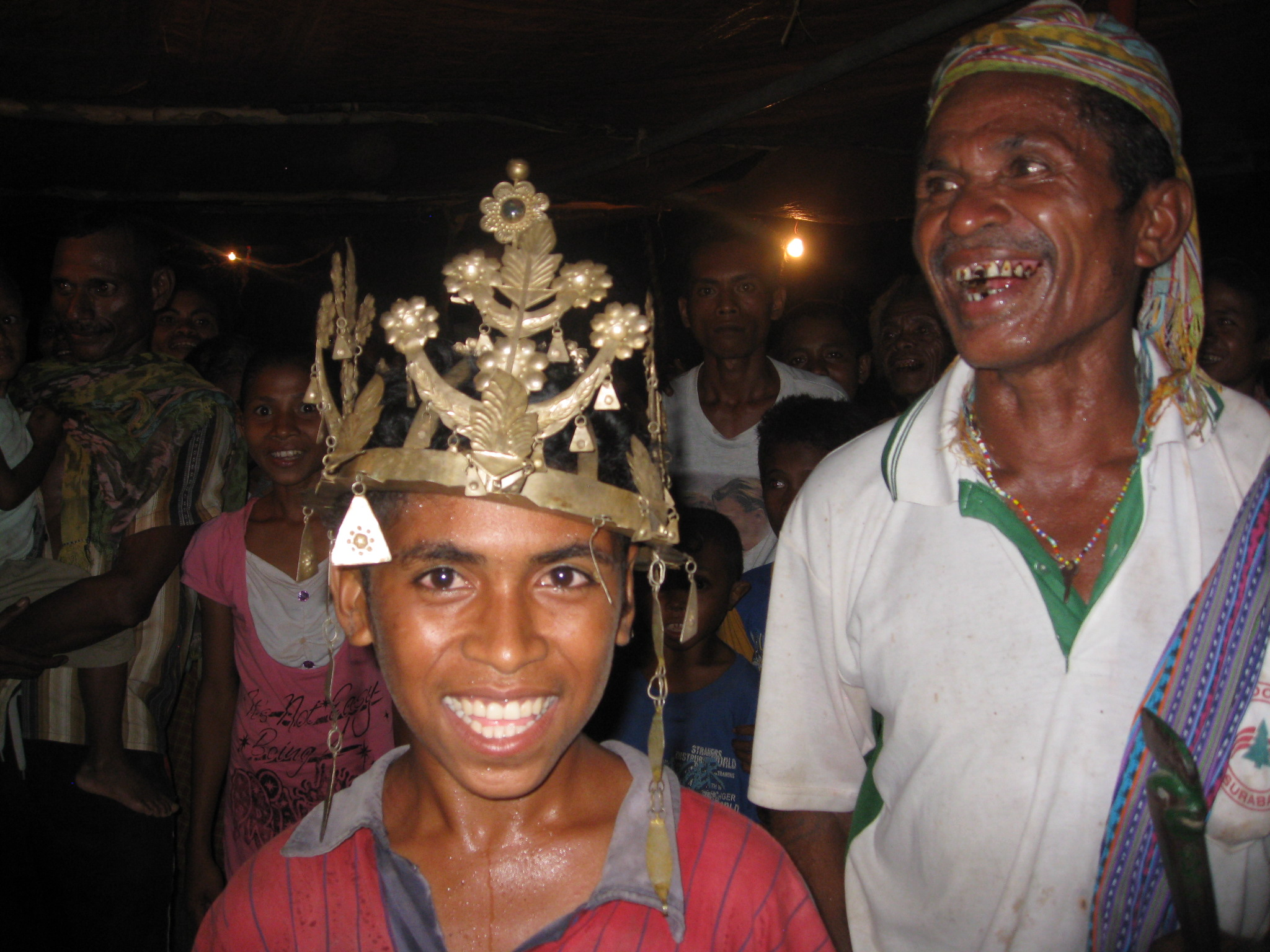 Ornament made of Silver, gold, old coins used for dancing the traditional dance Bso'ot in Oekum, Taiboco, district of Oecusse